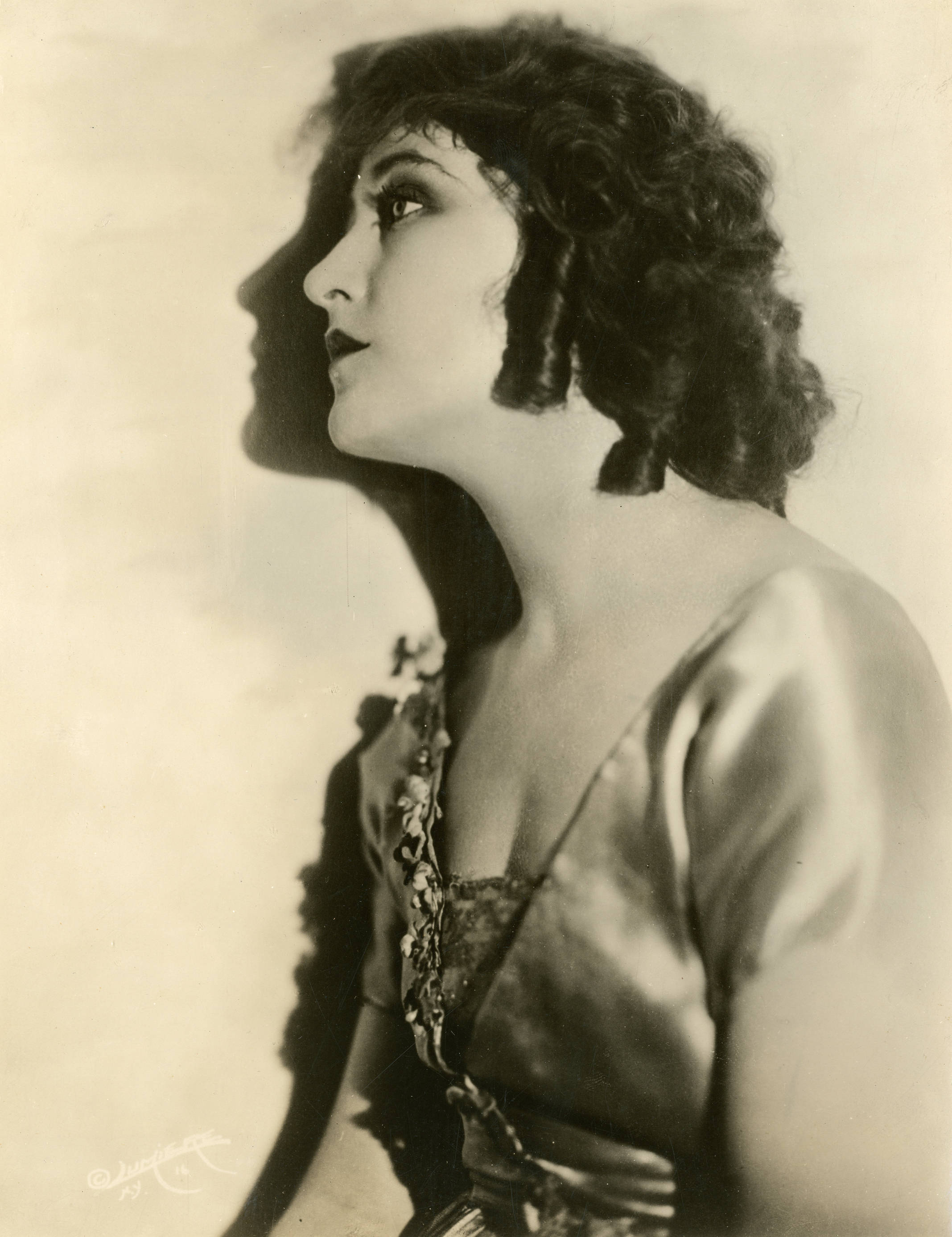 Silent film actress Ruth Clifford. Subjects: actresses